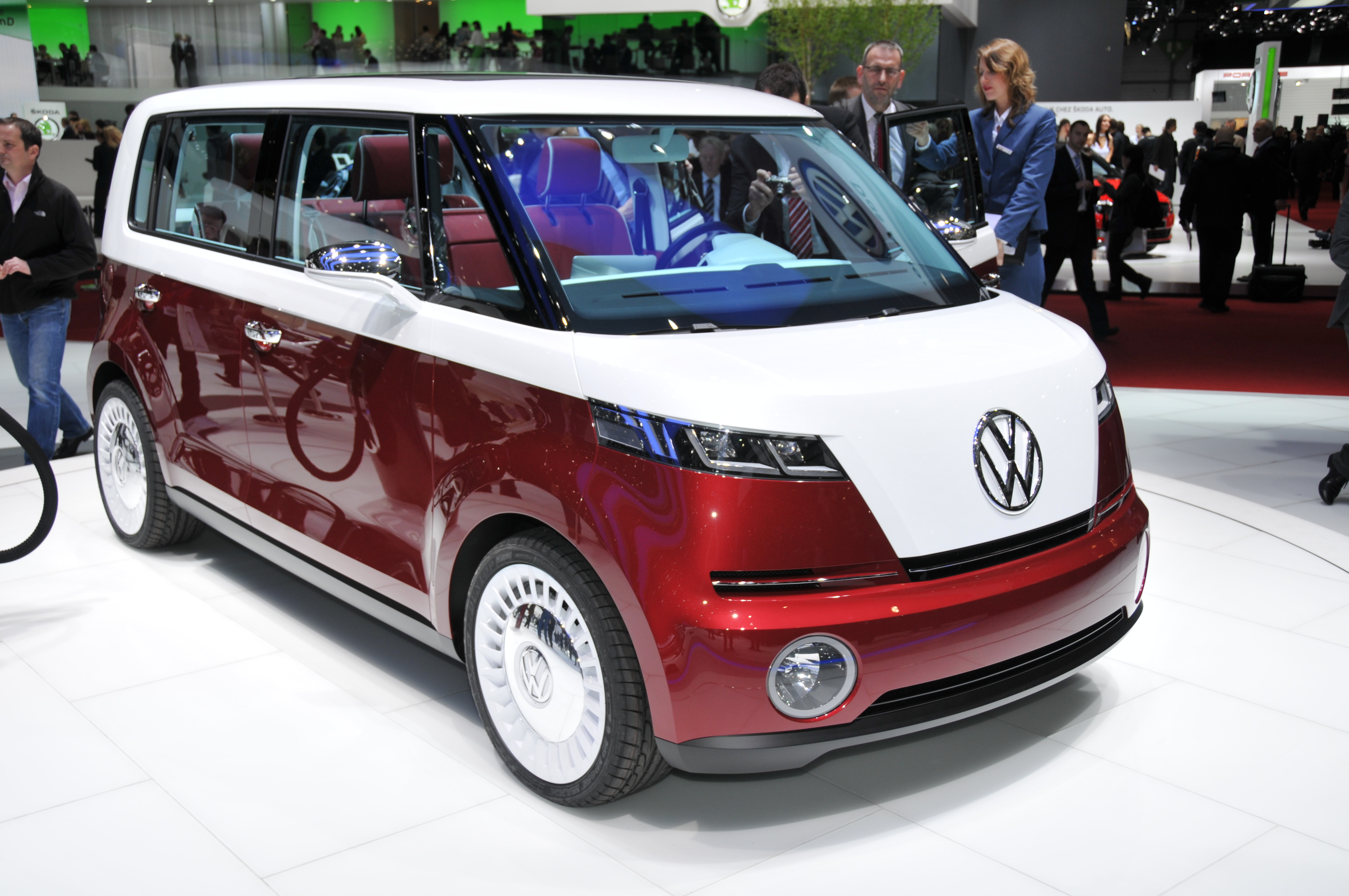 The VW Bulli was introduced at the 2011 International Motor Show